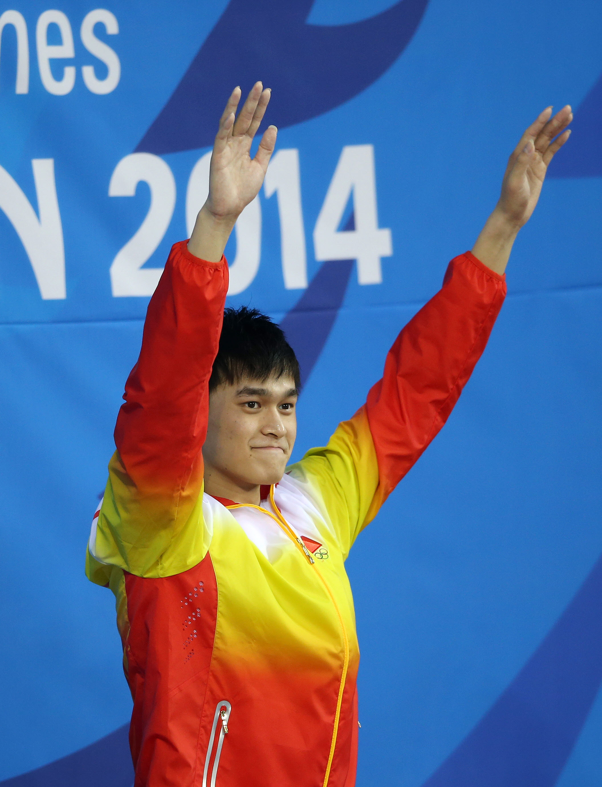 Incheon Asian Games 2014 Swimming Men's 1500m Freestyle - Fastest Heat September 26, 2014 Munhak Park Tae-hwan Aquatics Center, Incheon-si Ministry of Culture, Sports and Tourism Korean Culture and Information Service ( Official Photographer : Jeon Han This official Republic of Korea photograph is CC-BY-SA-2.0-licensed, so while restrictions such as personality or privacy rights may apply, in general, manipulations are allowed. If you require a photograph without a watermark, please use Flickr e-mail.